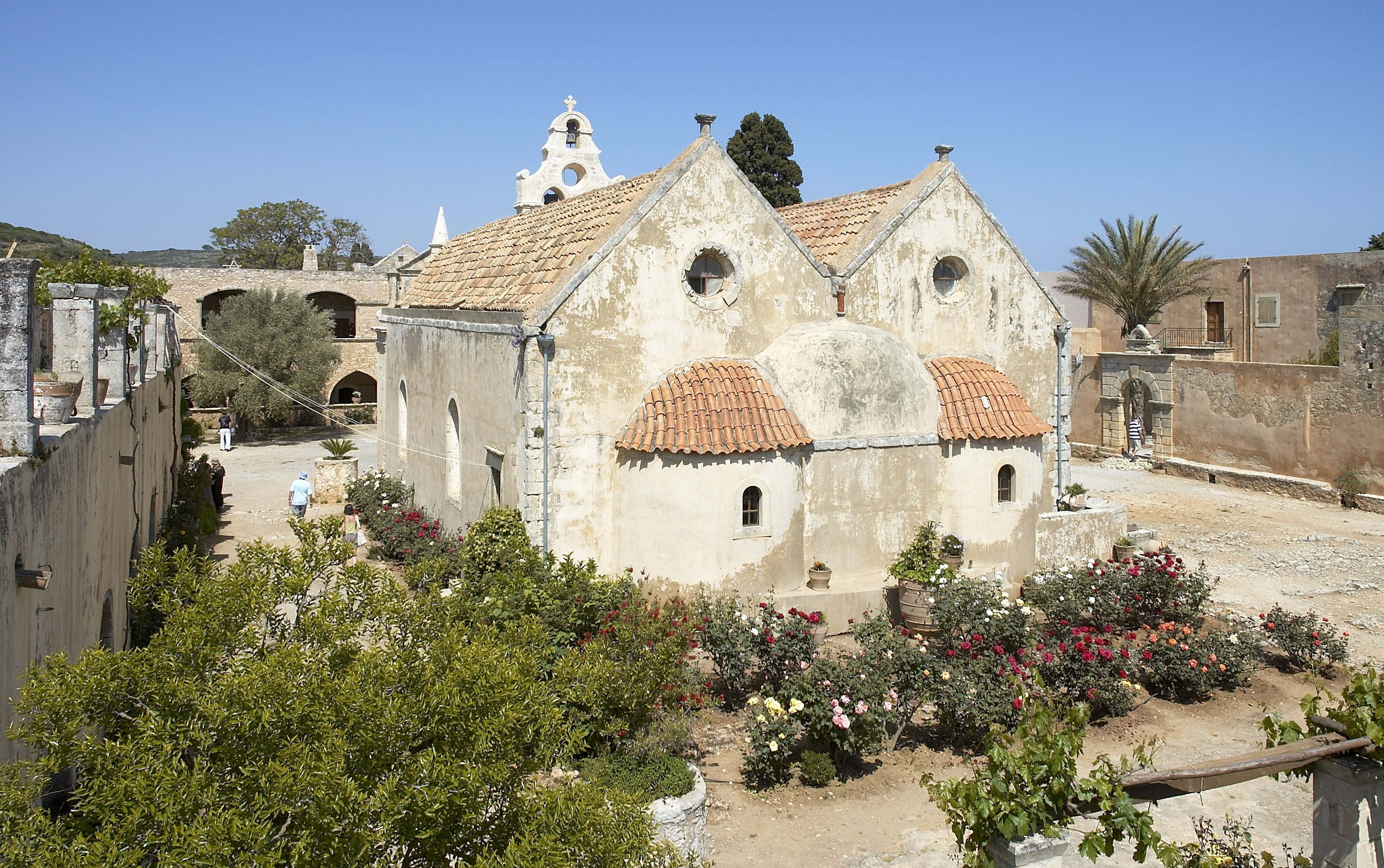 Arkadi Monastery / Moni Arkadiou